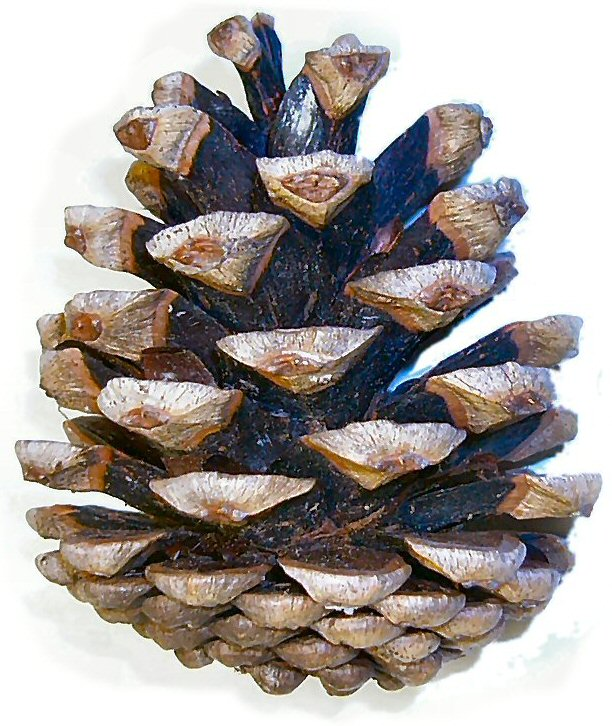 Pinus nigra open cone.